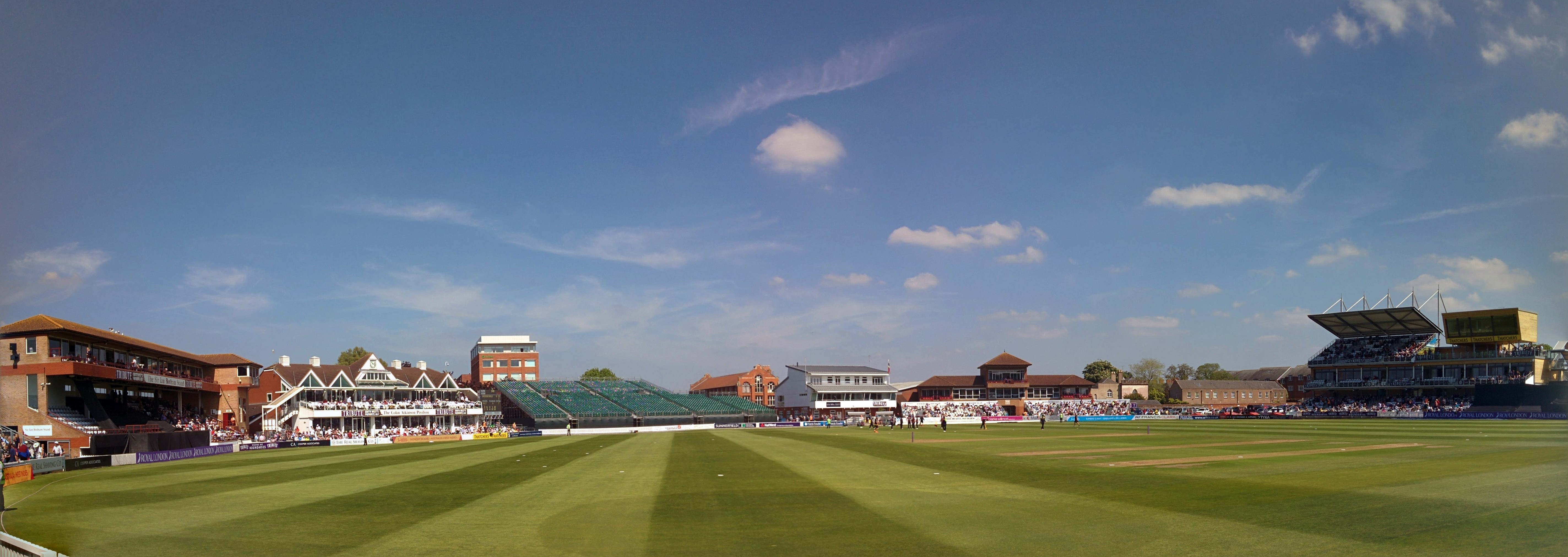 Panorama of the County Ground, Taunton in May 2017.